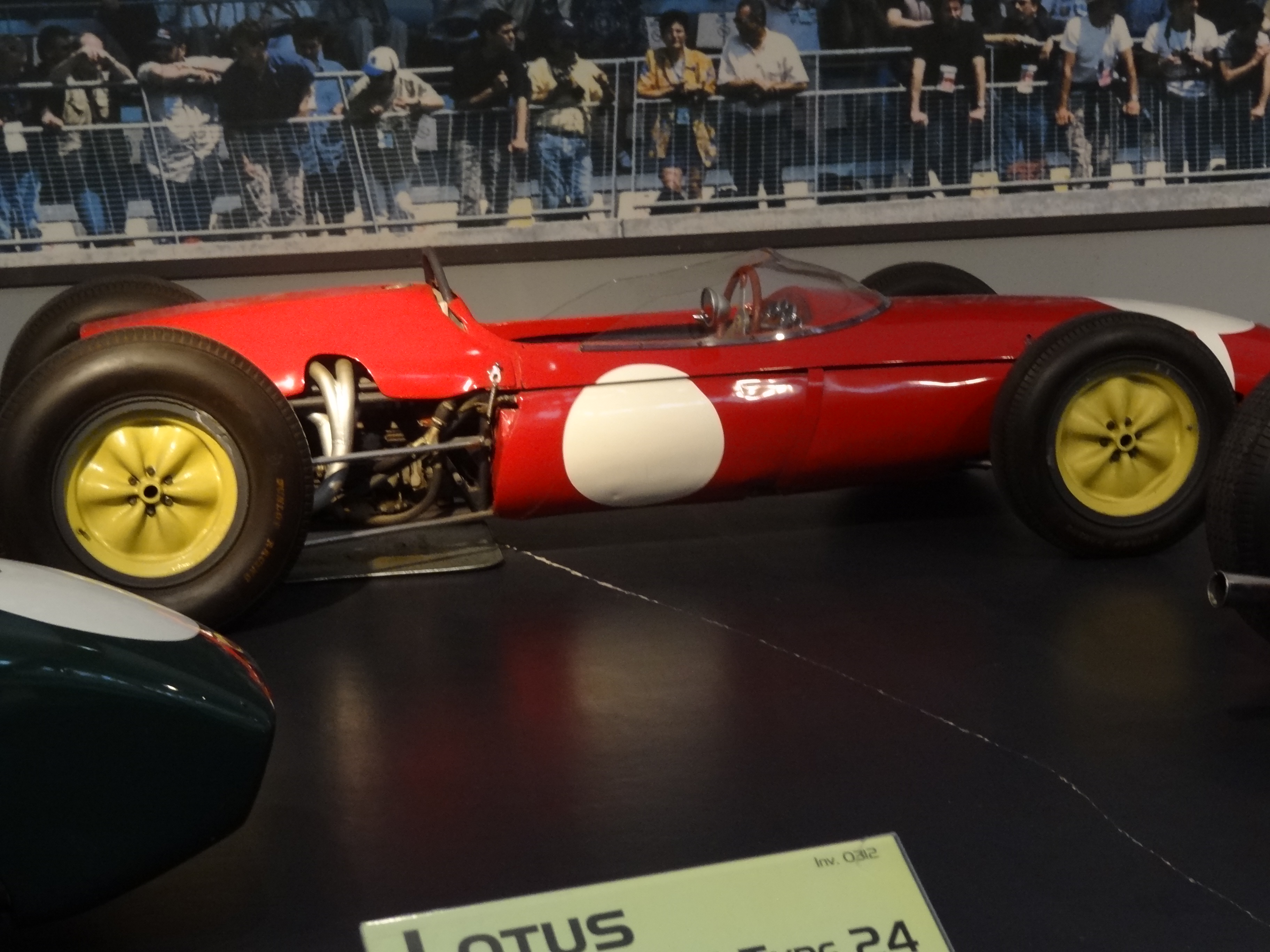 Jo Siffert's privateer-entered Lotus 24 Formula One car, in the Musée National de l'Automobile in Mulhouse, France.